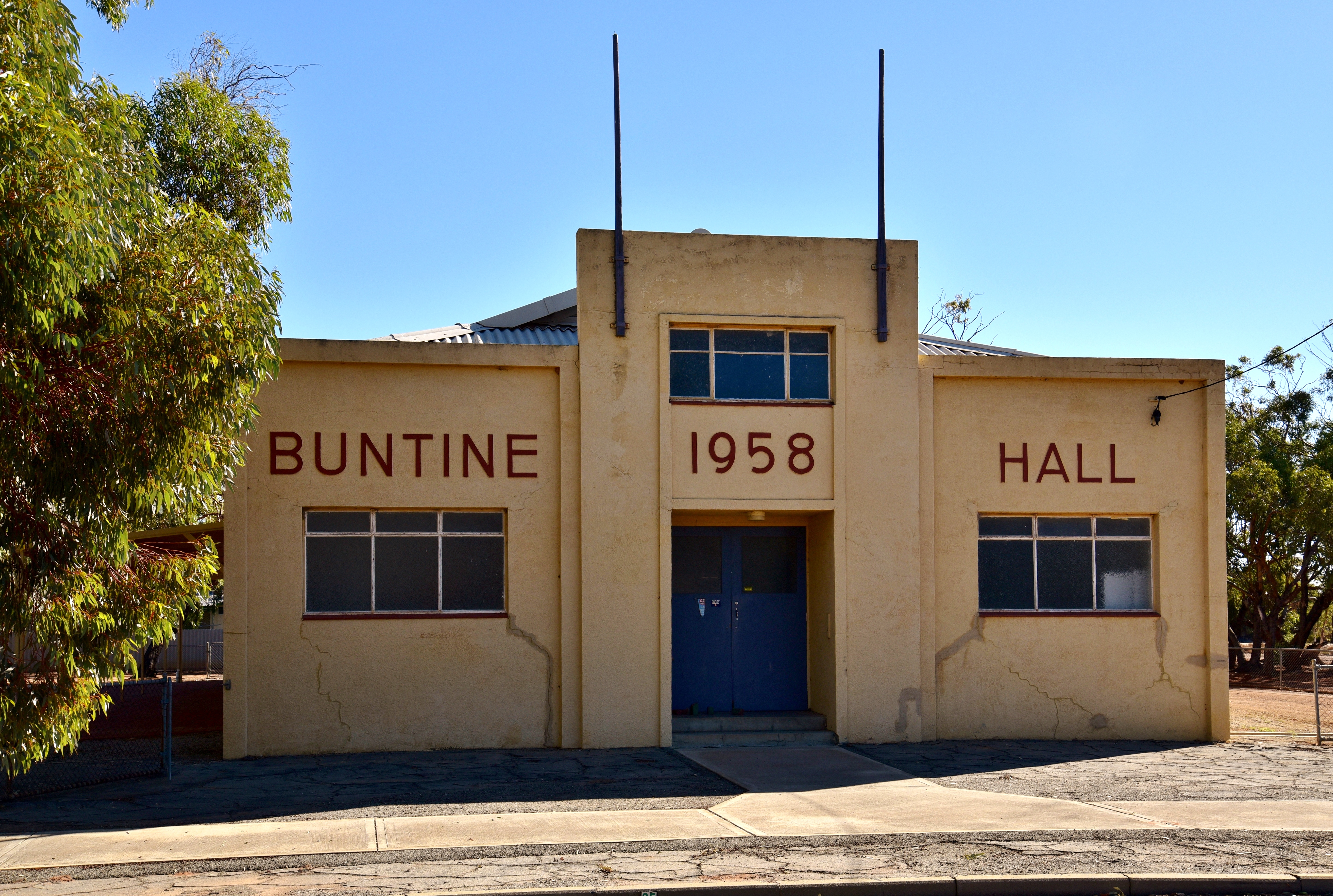 View of Buntine Hall, Buntine, Western Australia